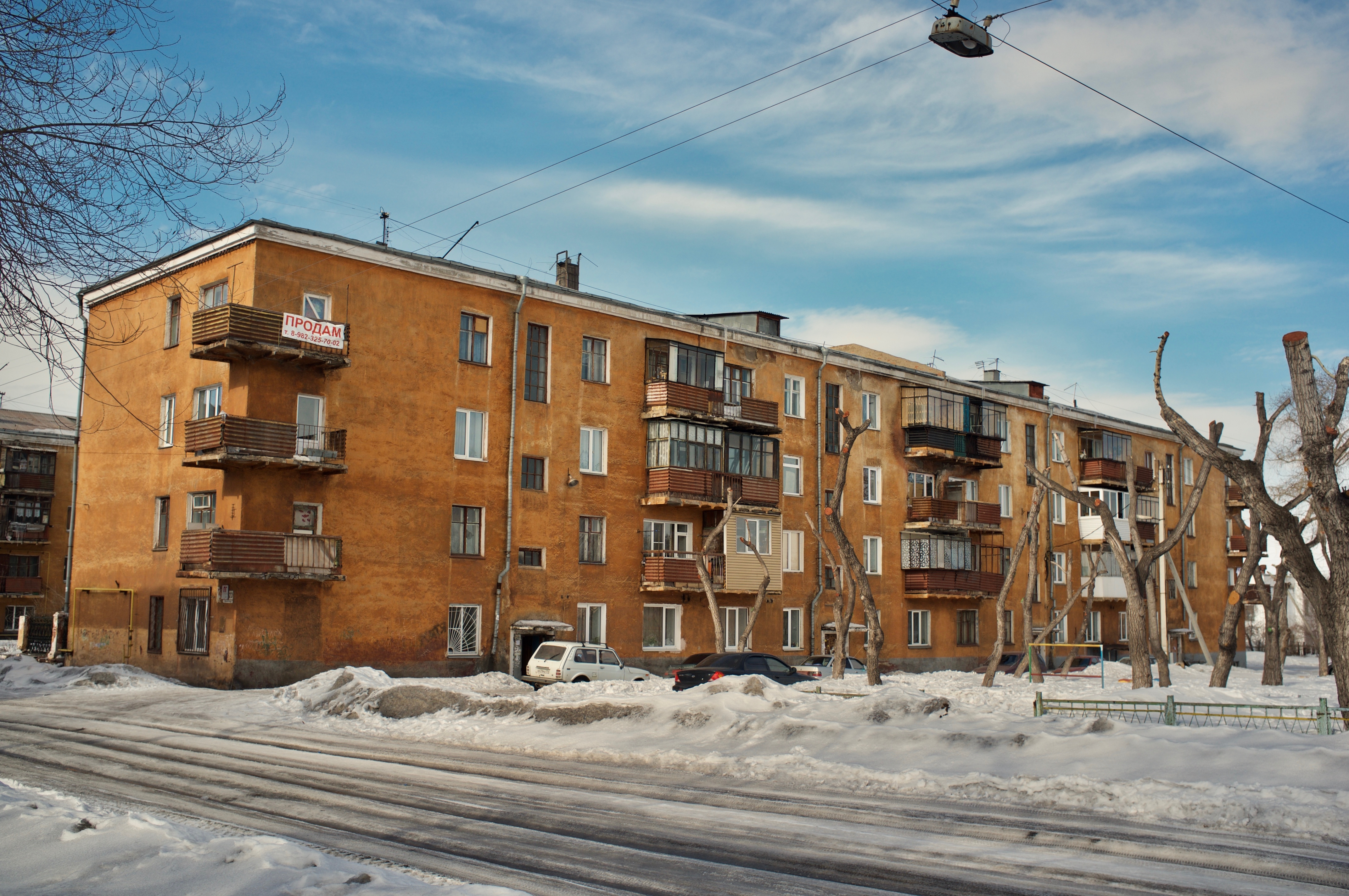 Quarter #1 (1920s)